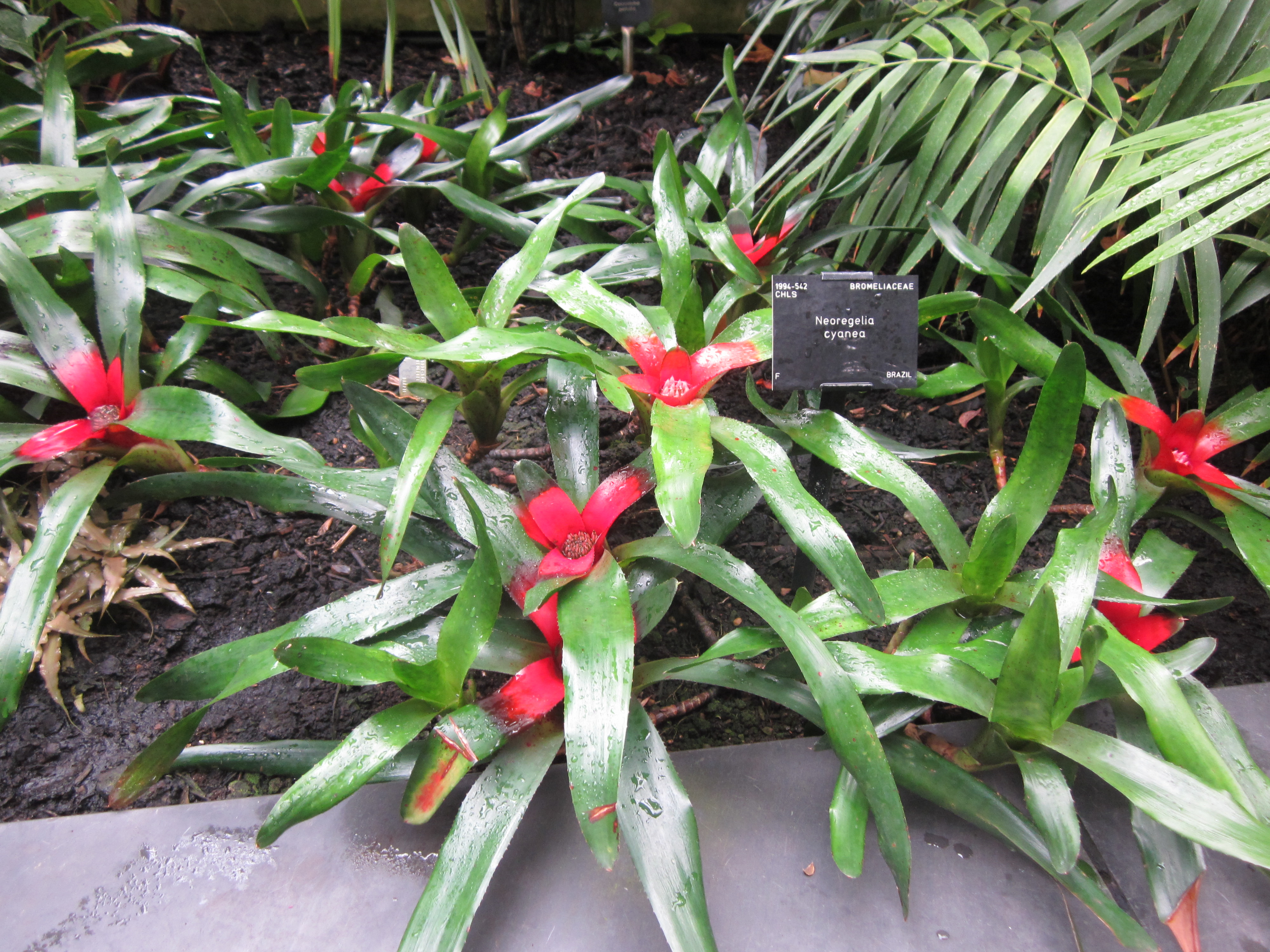 Neoregelia cyanea in Kew Gardens.